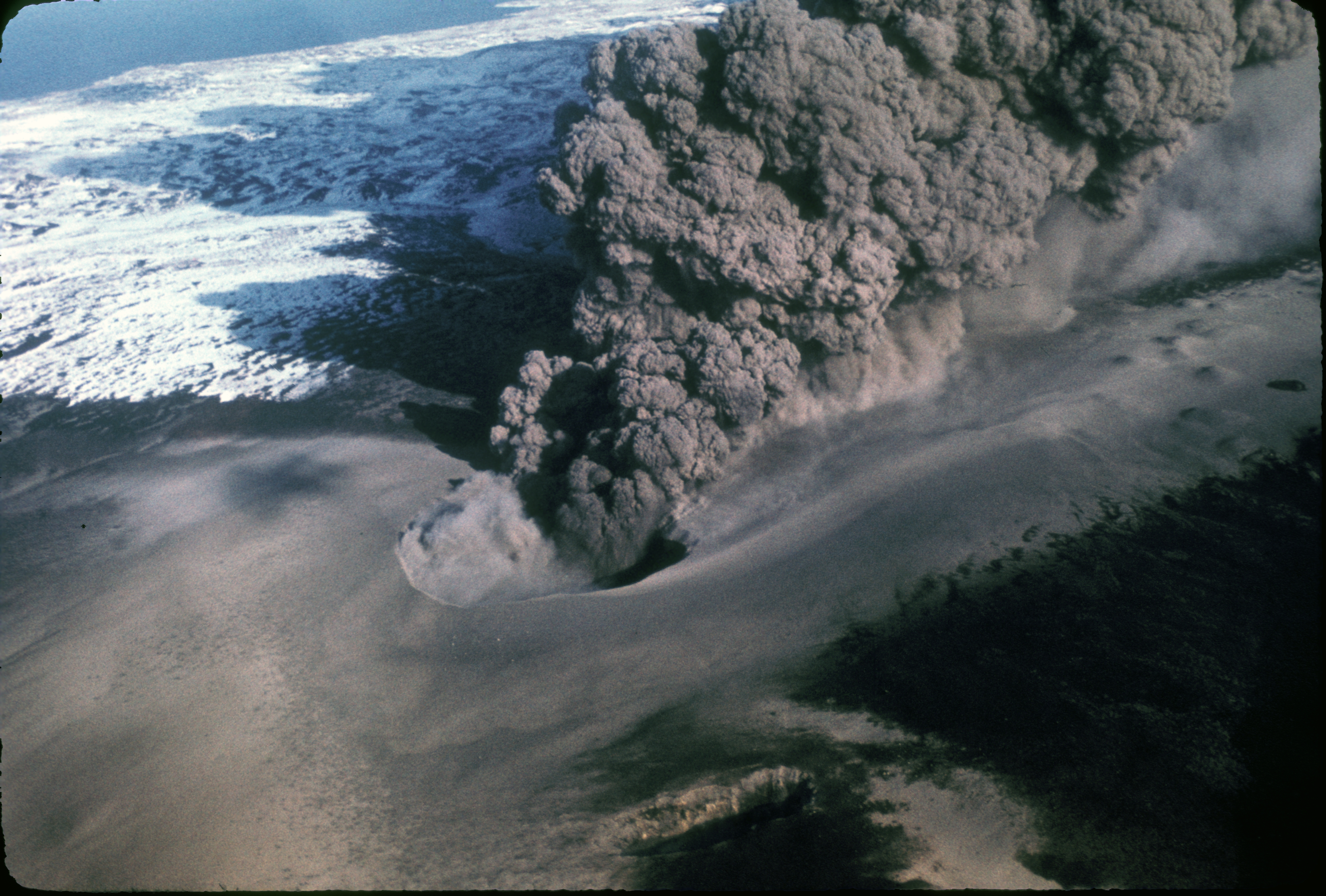 "Aerial view of a phreatomagmatic eruption of the East Maar of Ukinrek Maars. The smaller West Maar is visible in the foreground of the image. The Ukinrek Maars are located on the south shore of Becharof Lake on the Alaska Peninsula; the maar craters formed during a 10-day eruption in March and April of 1977. Image courtesy of the photographer. Please cite the photographer when using this image."